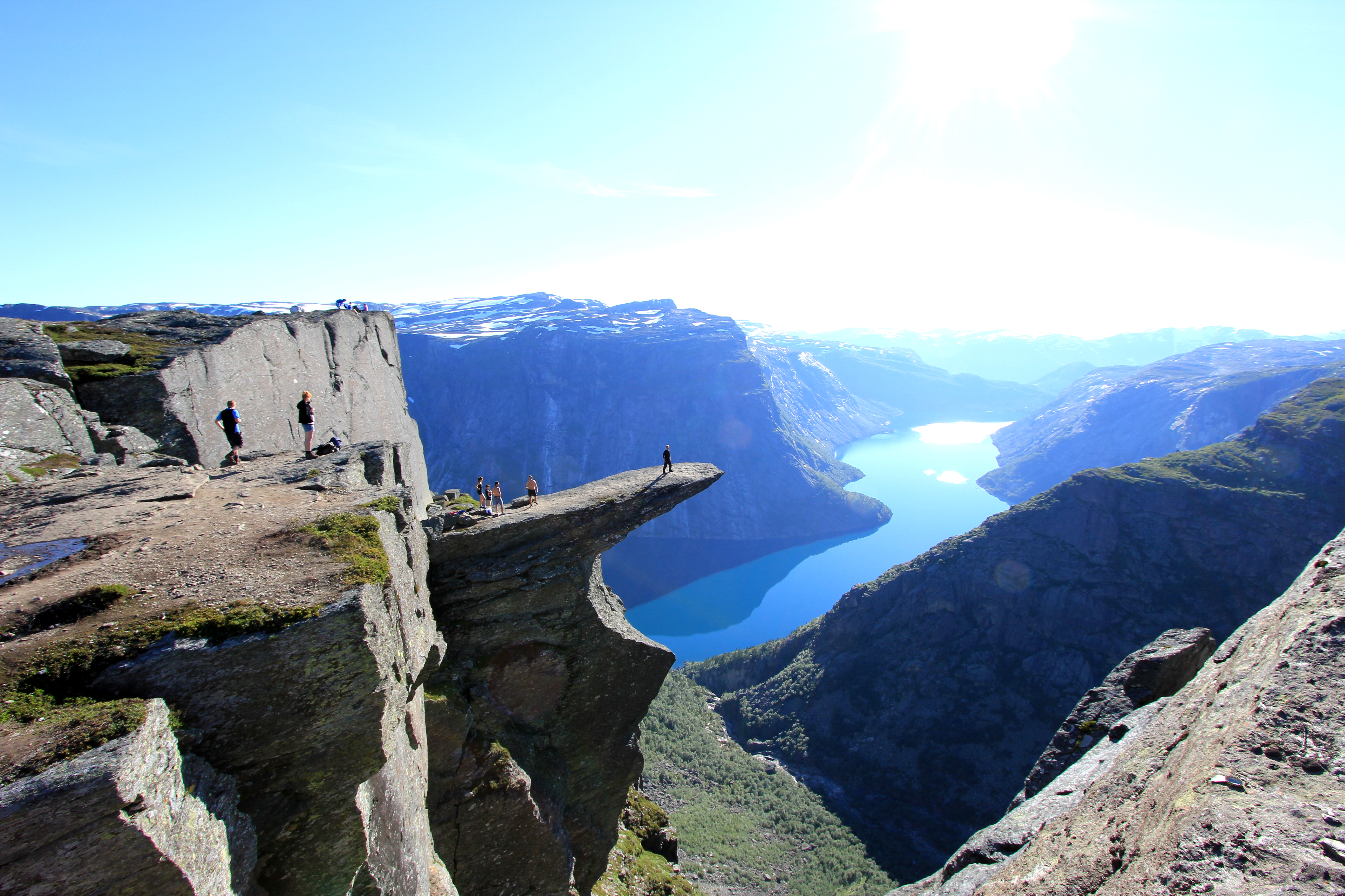 Trolltunga is at 1,100 meters above sea level, and is a spectacular rock formation that stands horizontally out of the mountain about 700 meters above Ringedal in Skjeggedal by Tyssedal in Odda, Hordaland county, Norway. To get to Trolltunga must travel to Odda, then to Skjeggedal true Tyssedal. You can take the funicular or follow the trail along the path up to Mågeligtoppen. From here you have to go east about 3 hours to get to Trolltunga. Tourist Association have cabins in the area where the accommodation is possible, the closest one is Reinaskorsbu with 6 beds. The area opens up to the rest of Hardangervidda, and can be the starting point for longer trips, such as to Hårteigen.